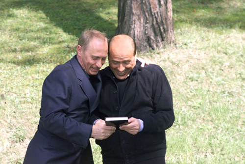 SOCHI. President Putin presenting the book The Silvio Berlsuconi Effect to Italian Prime Minister Silvio Berlusconi. The book is about Berlusconi's political career.